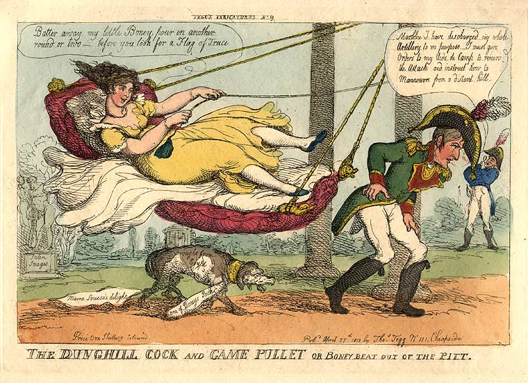 caricature: She: "batter away, my little Boney, pour on another round or two, before you look for a flag of truce". He: "I have discharged my whole artillery to no purpose... I must give orders to my Aide de Camp to renew the attack, and instruct how to Maneuvre(?) from a distant hill." Showing Napoléon Bonaparte with his second wife Marie-Louise of Austria who is reclining in what is labelled National cradle (implying that Napoleon only married her because he was in need of a male heir)